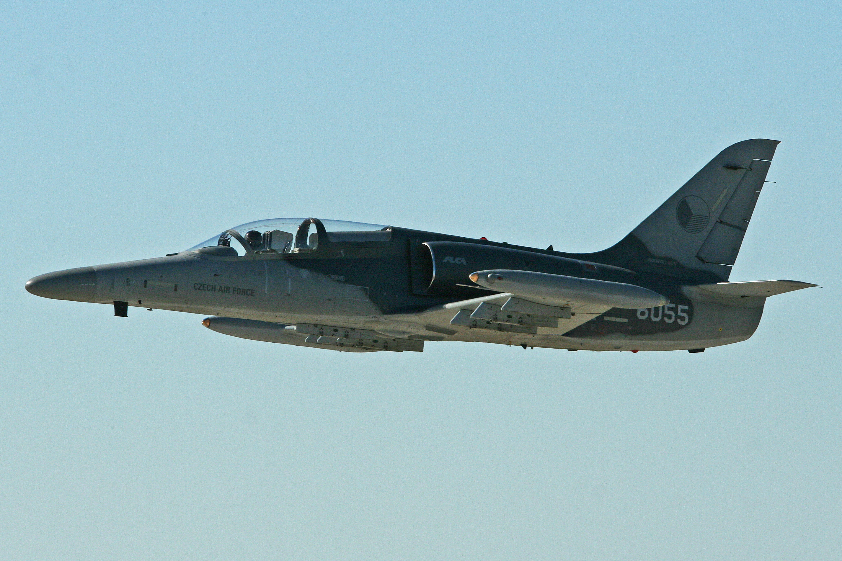 From Czech AF 212 tl based at Caslav. Seen during its display. msn 156055. Namest Open Day. 06-10-2012